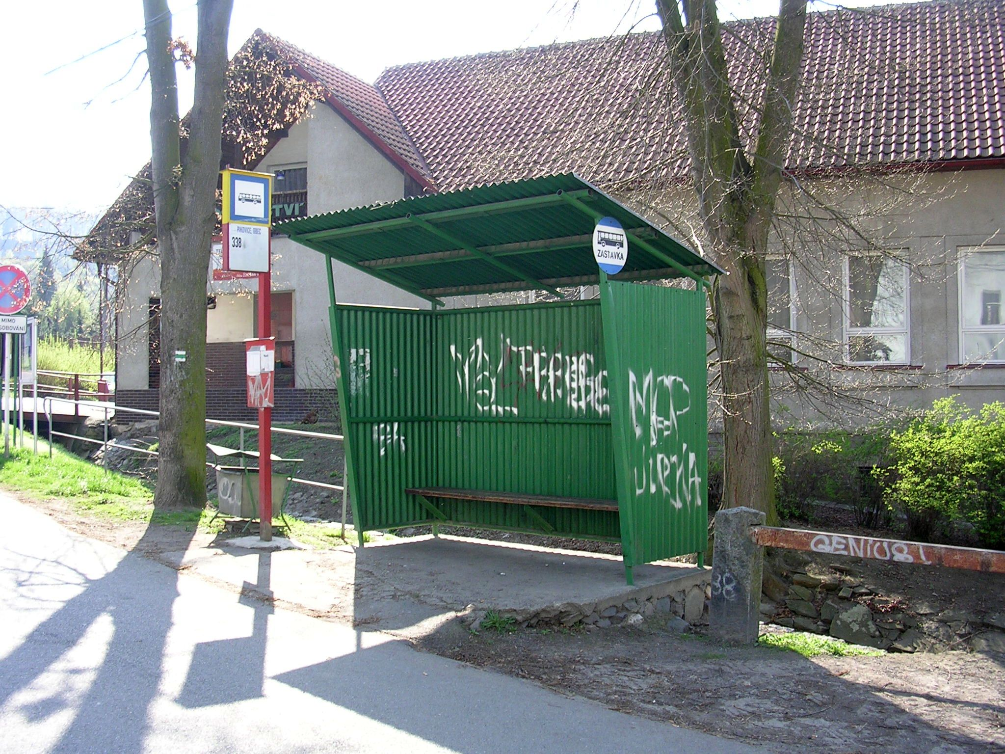 Hradištko-Pikovice, Central Bohemian Region, the Czech Republic. A bus stop.